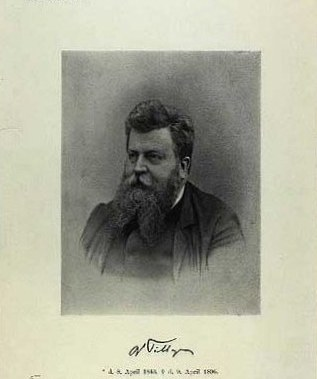 Vilhelm Tillge (1843-1896), Danish photographer